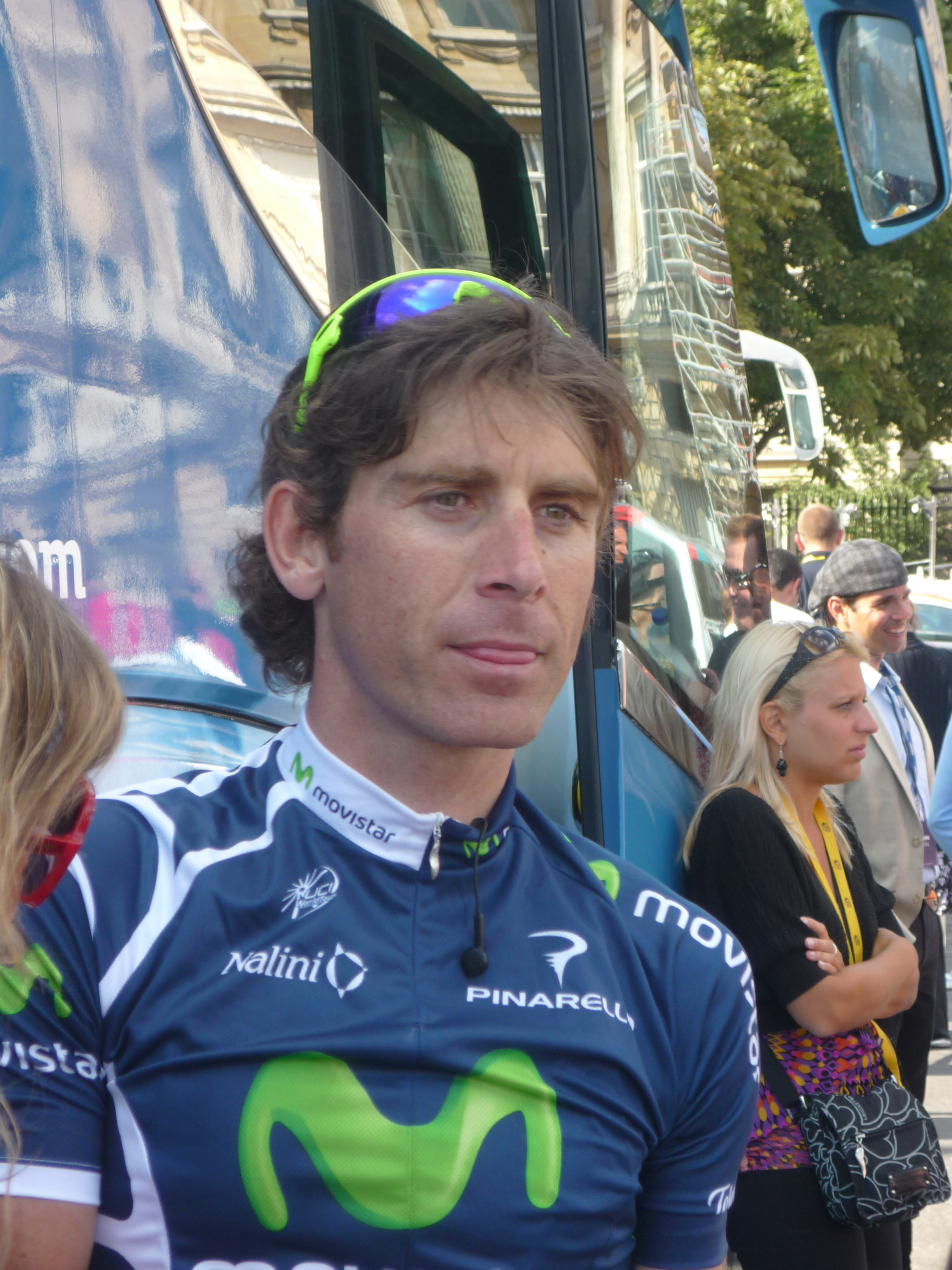 Iván Gutiérrez during 21th stage of Tour de France 2011 Créteil-Paris